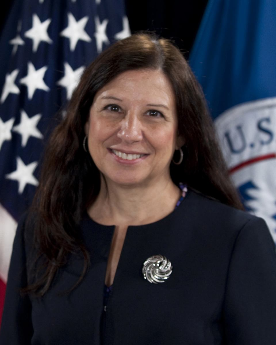 Elaine Duke, Deputy Secretary of Homeland Security